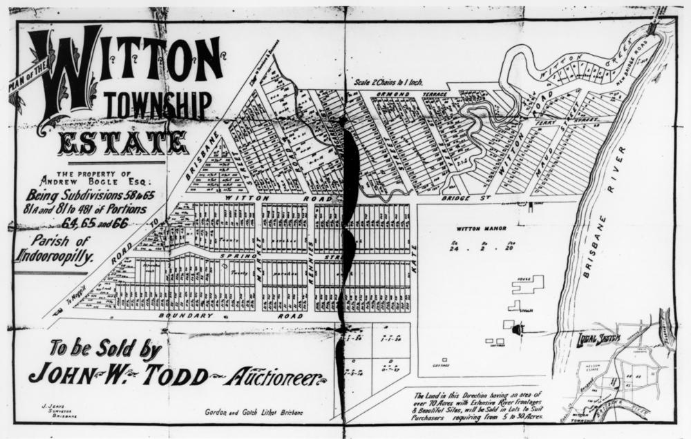 Witton Township real estate map, Indooroopilly, Brisbane, ca. 1880s The property of Andrew Bogle Esq. To be sold by John w. Todd, Auctioneer. The land in this direction having an area of over 70 acres with extensive river frontages and beautiful sites, will be sold in lots to suit purchasers requiring from 5 to 30 acres. (information on map) Map includes Ormond Terrace, Witton Road, Spring Street, Boundary Road, Bridge Street, Maud Street, Market Street, Rennies Road and shows the location of Witton Manor.